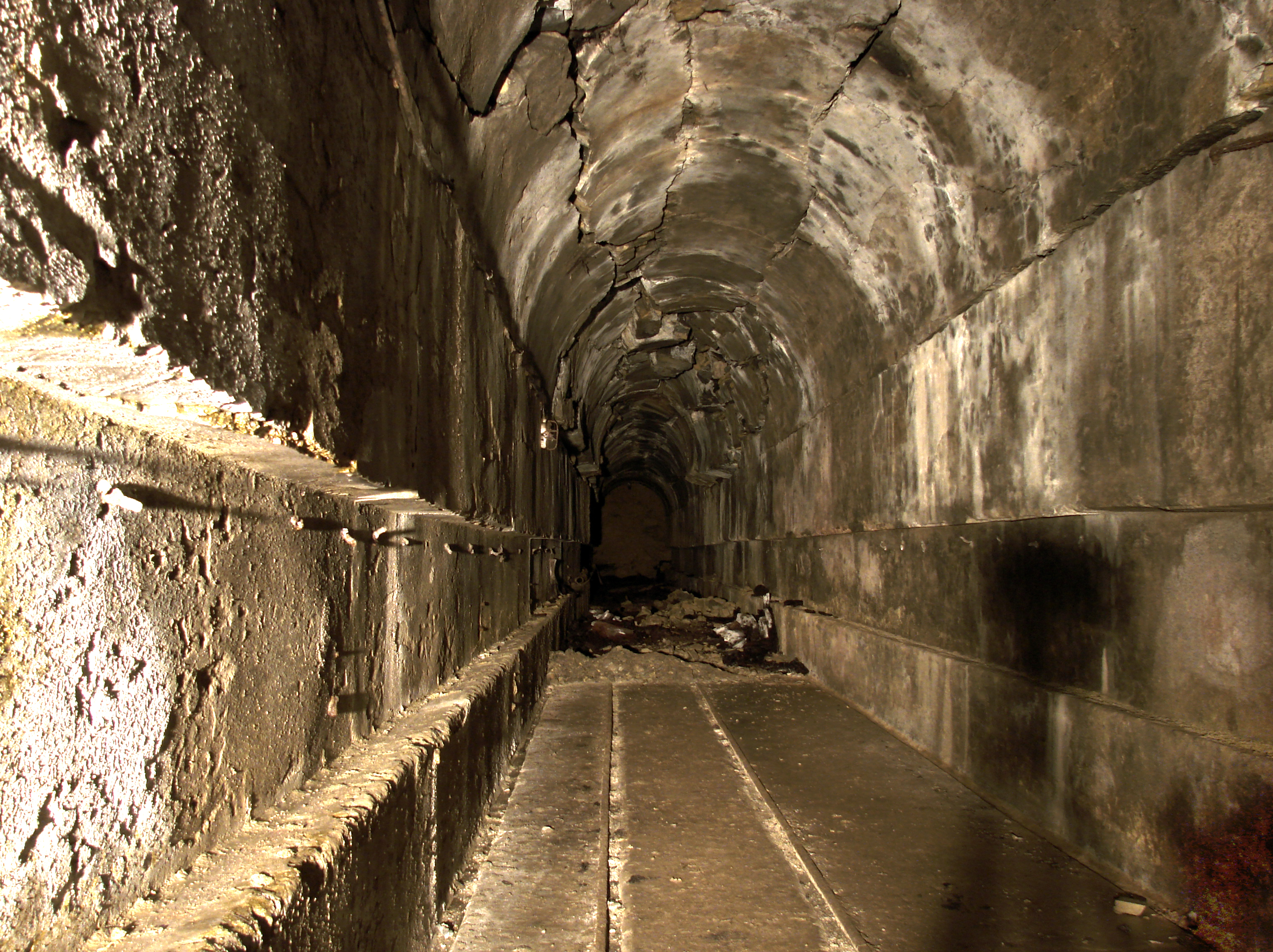 What remains of block 1 of the fort after the German experiments. (Four à Chaux, Alsace)